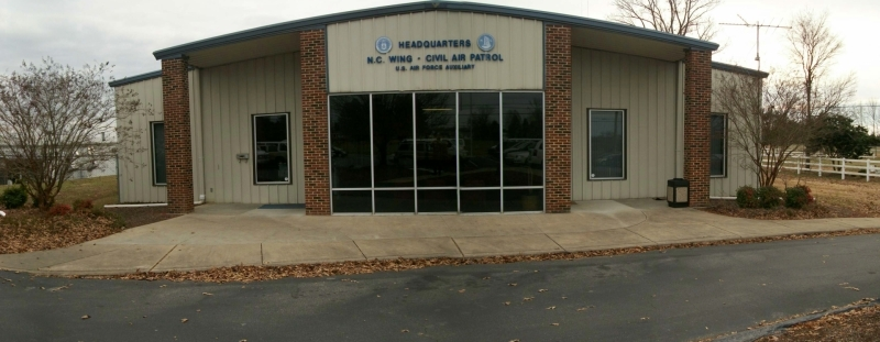 Photo of North Carolina Wing Headquarters Building, Civil Air Patrol